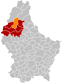 Own edit of Kanton WiltzLocatie.png